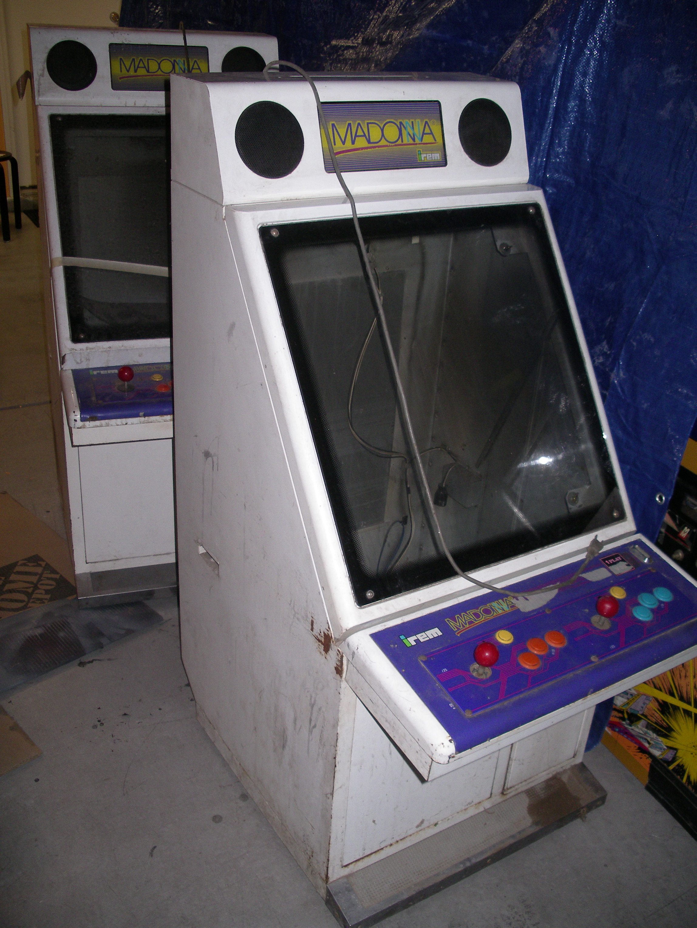 Irem Madonna cabs